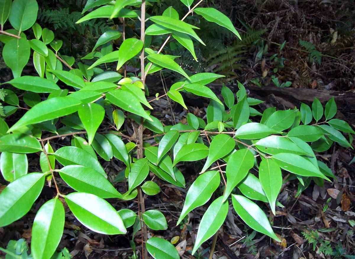 Decaspermum humile, Stony Range, Dee Why, Australia